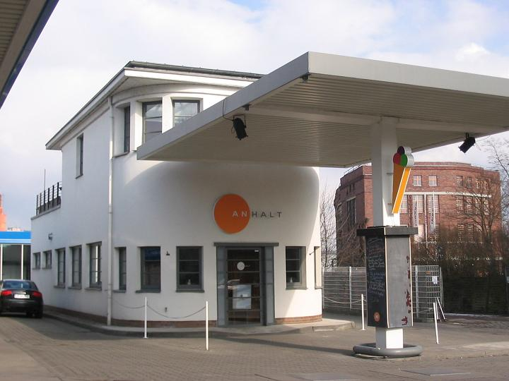 Listed petrol station with the first Berliner motor service area. Berlin-Kreuzberg, Lohmühleninsel. Built according to plans by Paul Schröder and Max Pohl in 1928/29. Today used as coffee house.